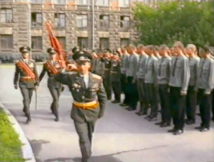 Col. Leonid Khabarov leading the Honour Guard in front of his subordinates for the last time, before the retirement.